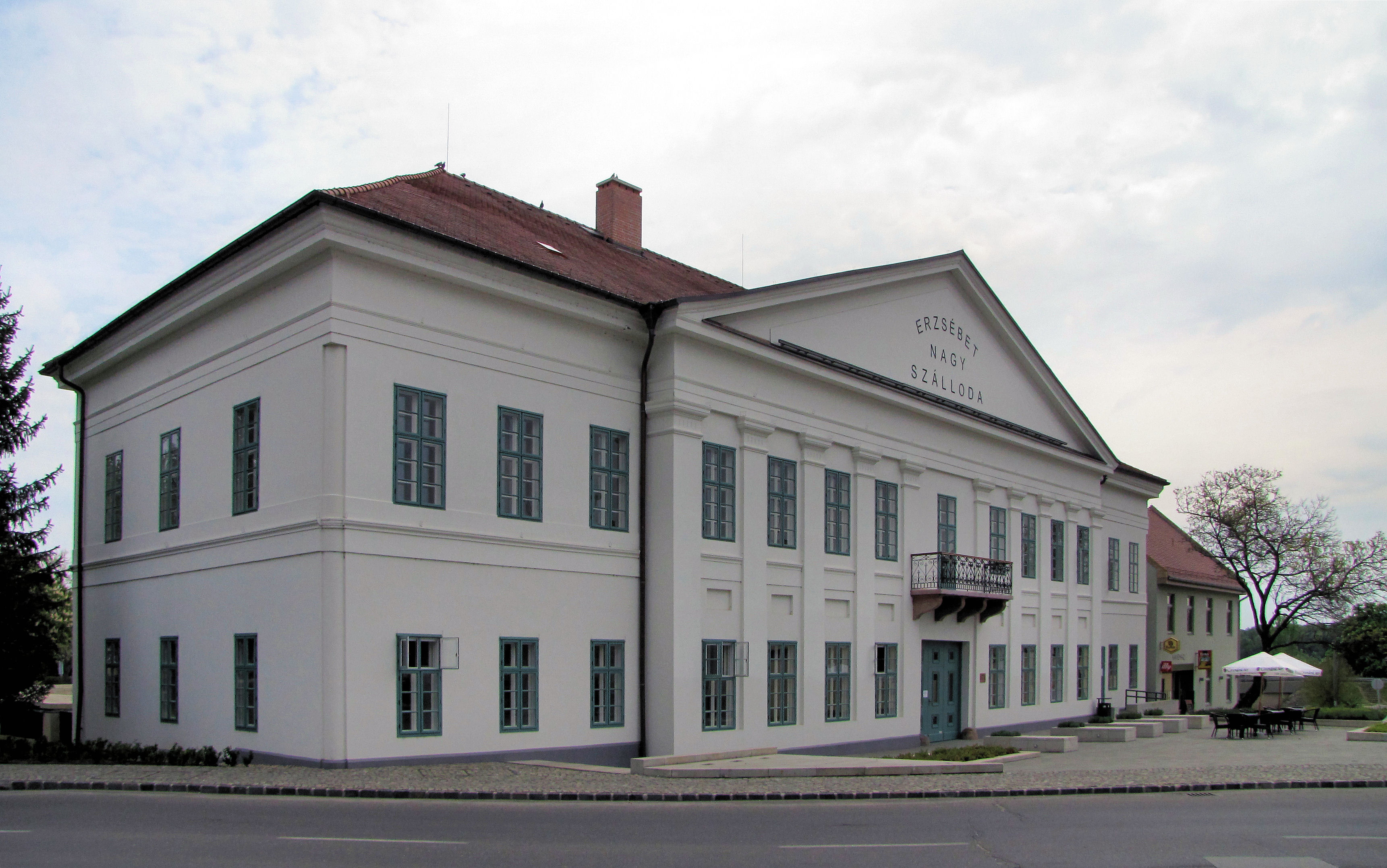 Hotel Erzsébet Nagy Szálloda, Paks, Hungary. A fine example of Hungarian Neo-Classical architecture, built in 1844. As a protected historical monument, after 1991 the building was used as the municipal gallery. It was recently restored and taken back to its original function.